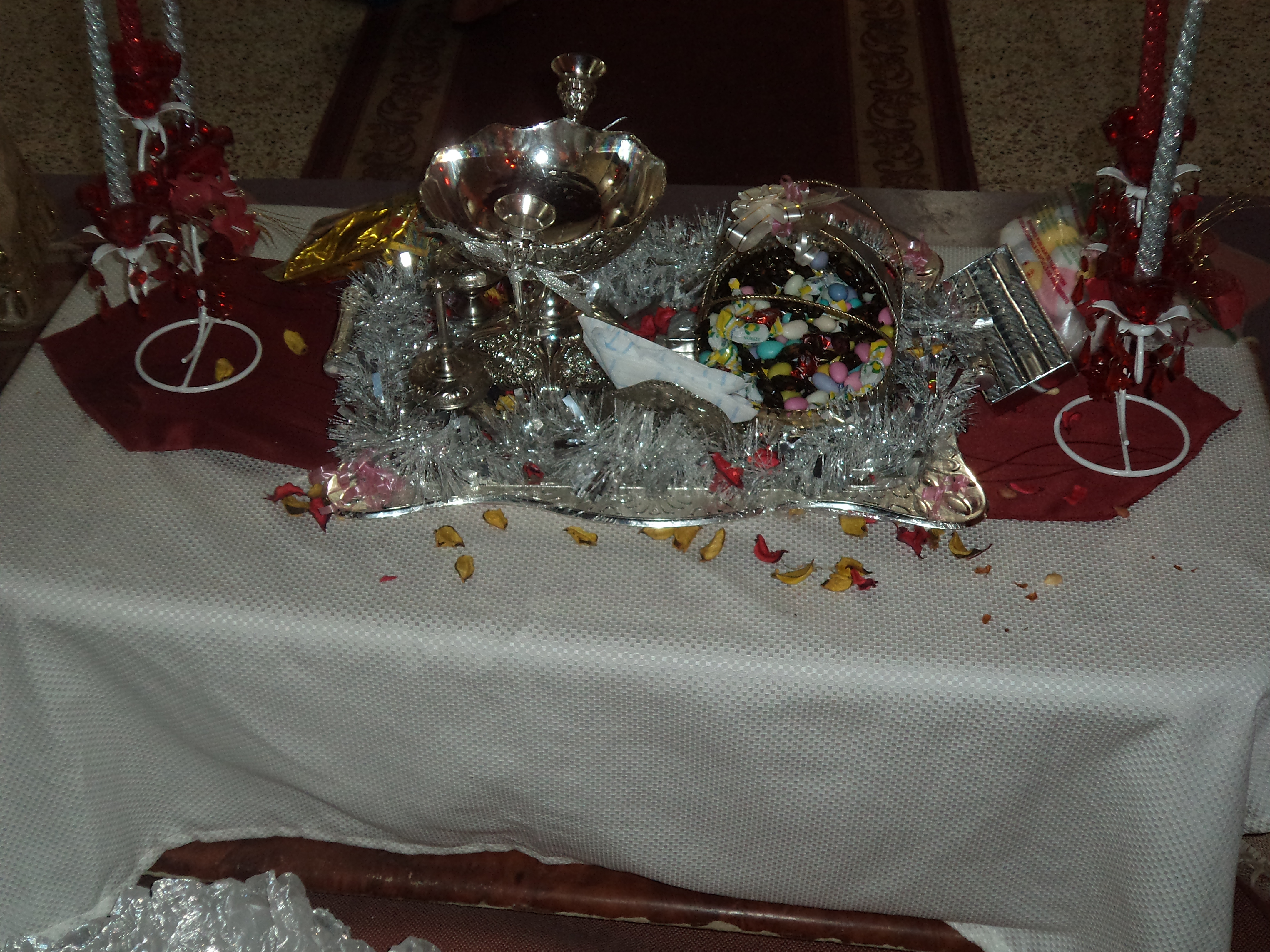 Weeding in Algeria This is an image of food from Algeria